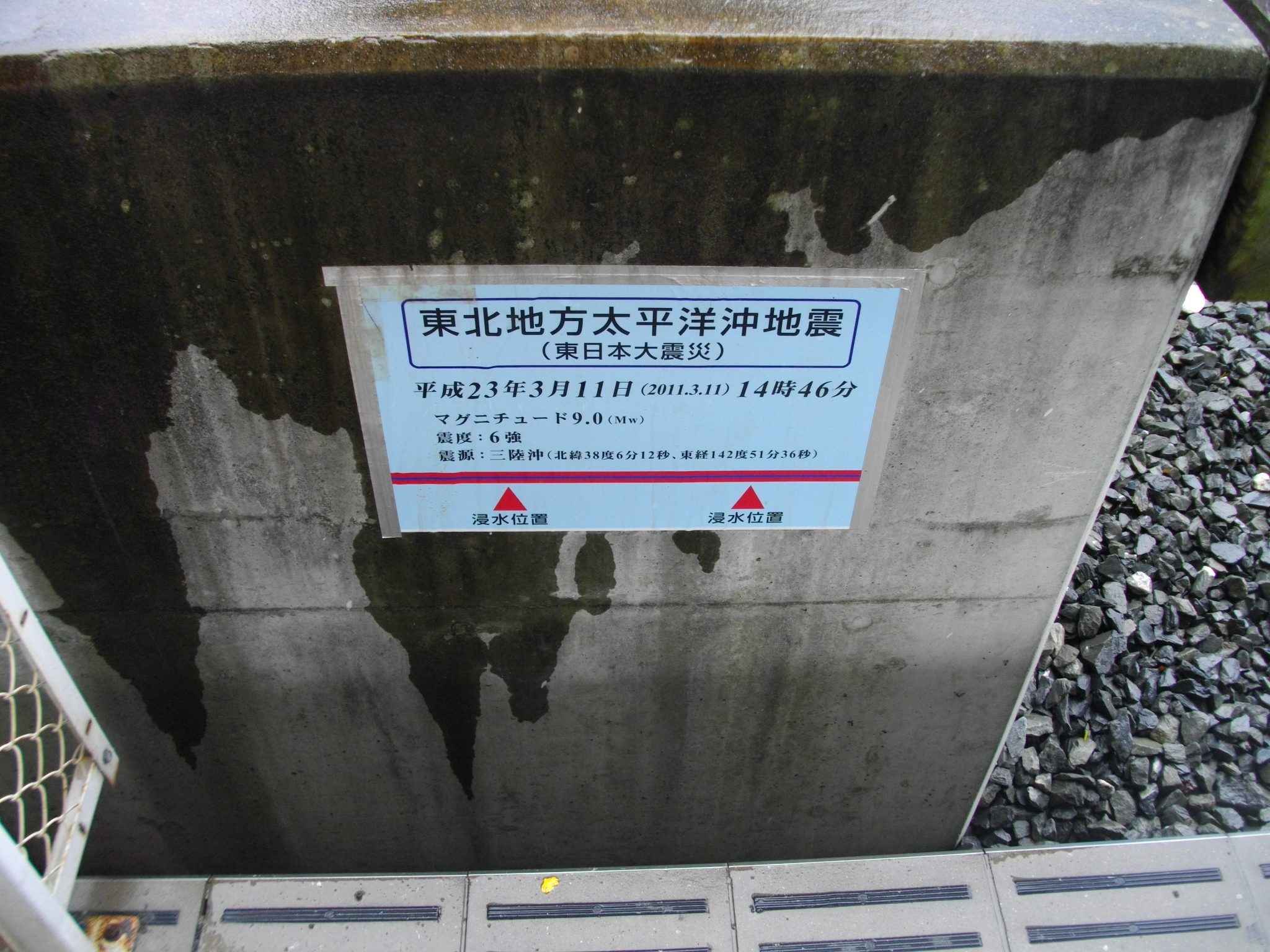 Ishinomaki Station interior